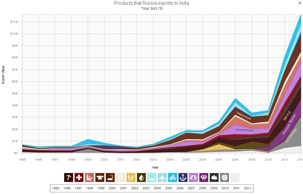 Russian exports to India - 1995 to 2012 from MIT Harvard Economic Complexity Observatory